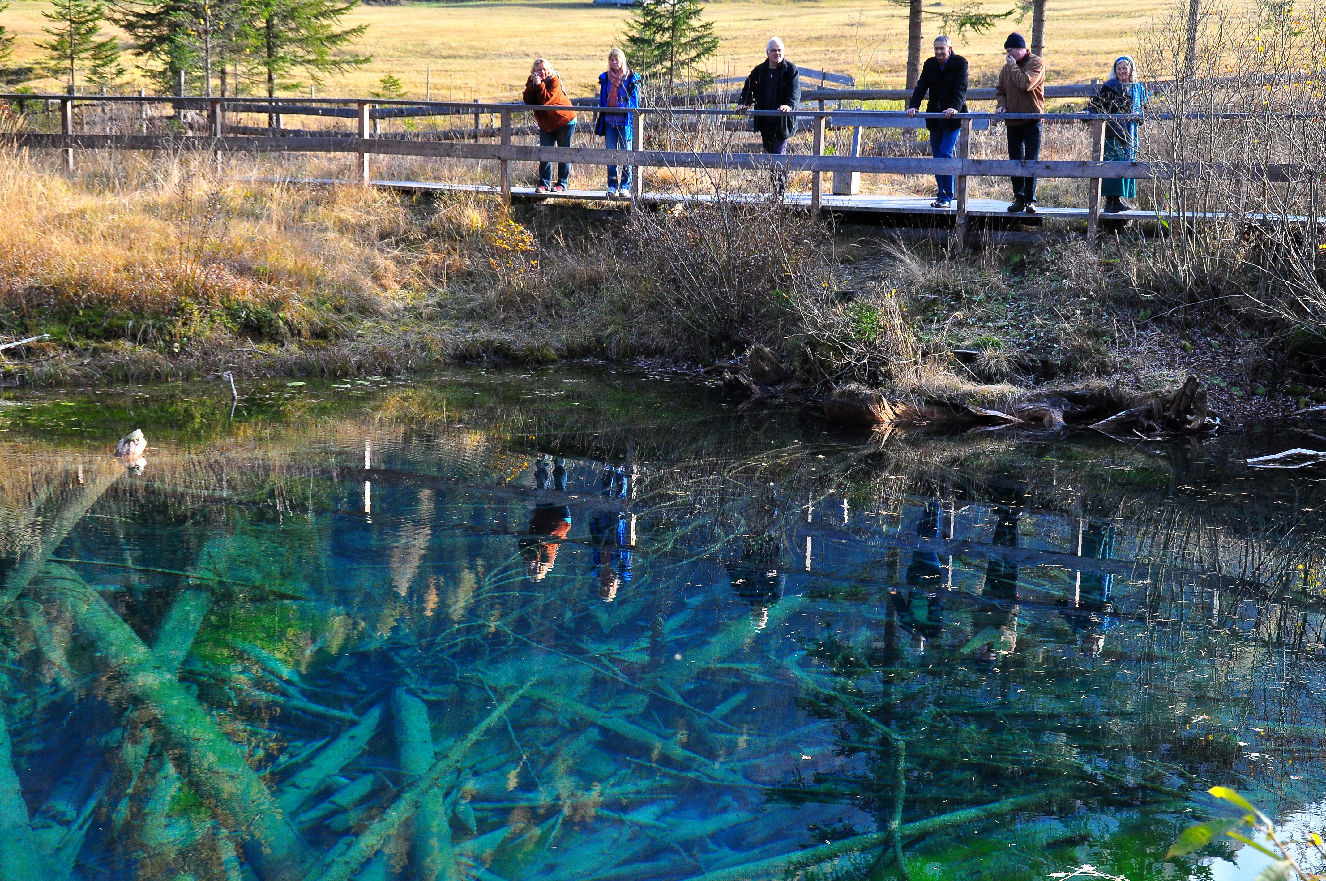 "Meerauge", glacial remnant of a pond with clear water and logs of old dead trees, Bodental, municipality Ferlach, district Klagenfurt Land, Carinthia, Austria, EU